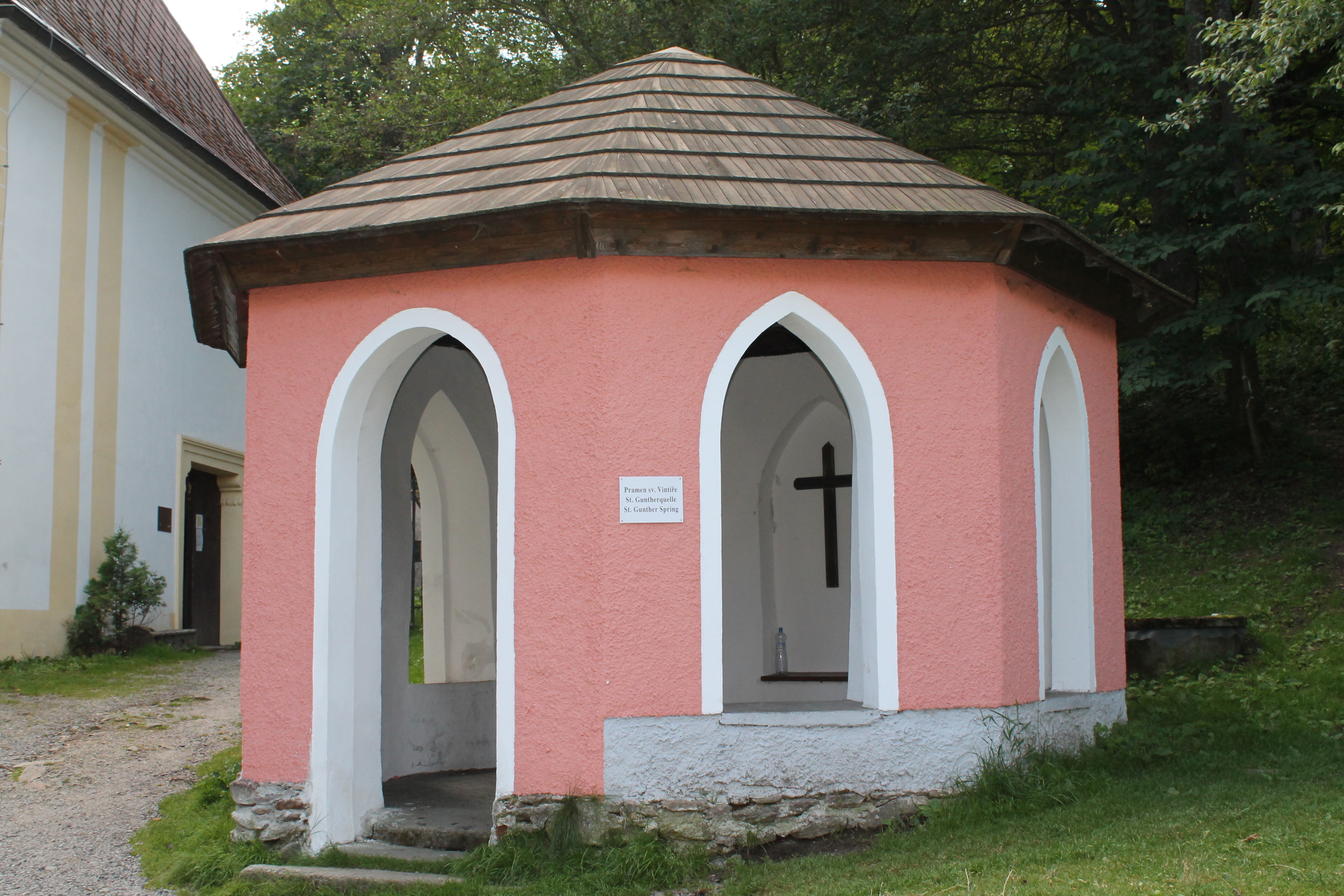 Spring chapel near to Church of Gunther of Bohemia, Dobrá Voda, Hartmanice, Klatovy District, Czech Republic